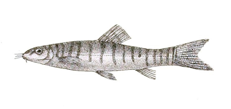 The species names / identity need verification - original names from plate are included here. The original plates showed the fishes facing right and have been flipped here. Nemacheilus zonatus